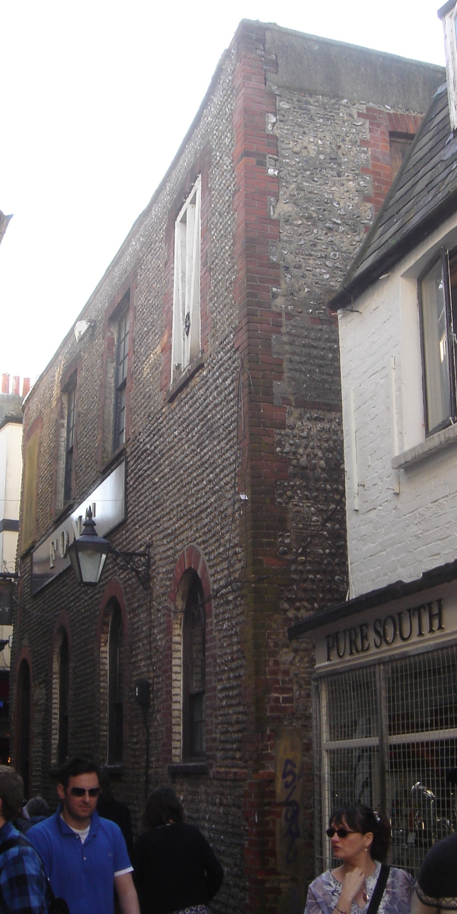 East wall of the former Union Chapel, a Nonconformist chapel (later an Independent chapel, the Union Free Church, a miners' missionary chapel and an Elim Congregational church) in Union Street, Brighton, England. This wall is in a different style from the Grecian façade, and may date from the original construction in the 17th century or from alterations in 1810. The building is now a pub called the "Font & Firkin".